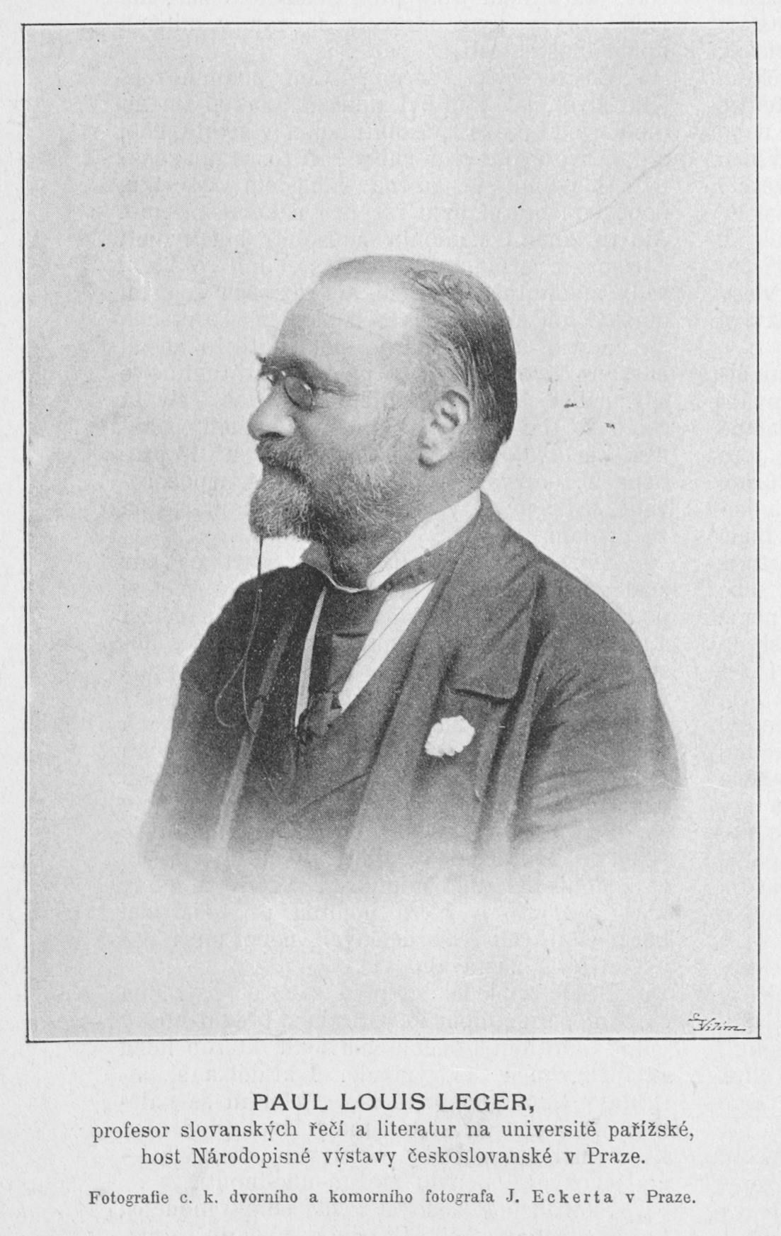 Portrait of (Paul) Louis Léger (1843-1923) taken on occasion of his visit to Czech & Slavonic Ethnographic Exhibition in Prague 1895.